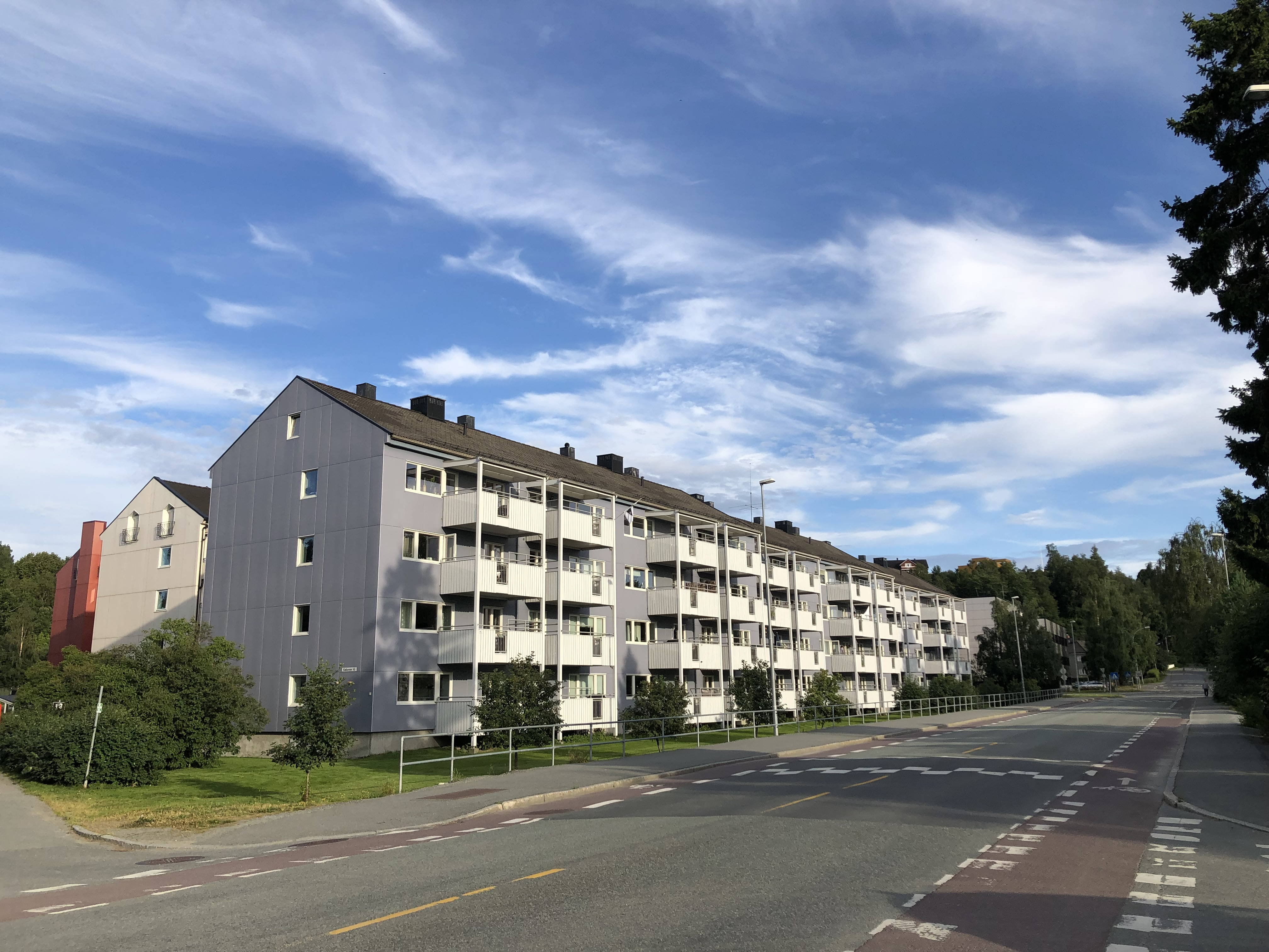 Klæbuveien 145, Trondheim.